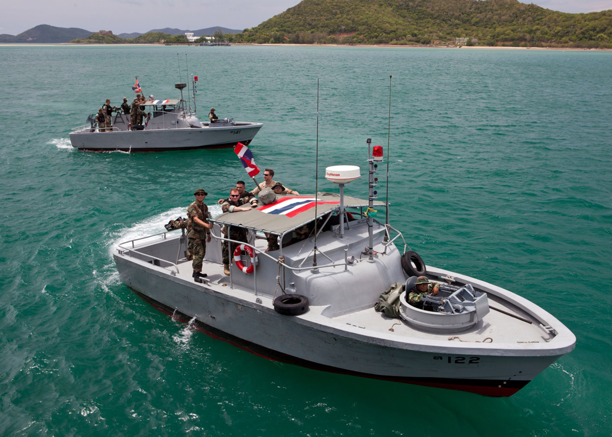 Royal Thai Navy Riverine Sailors and U.S. Navy Sailors from Riverine Squadron ONE conduct a Riverine Warfare demonstration aboard Thai riverine patrol boats as part of Cooperation Afloat Readiness and Training (CARAT) Thailand 2010. This is the first time in the 16-year history of CARAT, Thailand, that U.S. and RTN Riverines have participated together, sharing insight into each other’s operations, and increasing the interoperability of the two forces.